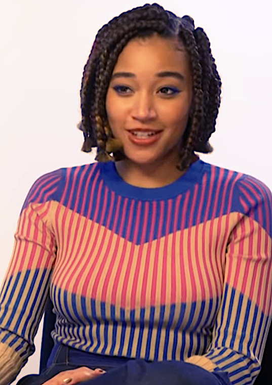 The (literal) Starr of The Hate U Give, Amandla Stenberg, director George Tillman Jr. and author of the best-selling novel, Angie Thomas, reveal Regina Hall’s hilarious shenanigans on set of the drama film, why it's so important to watch right now, the story behind how Amandla Stenberg and KJ Apa were cast and why we might see Amandla in Riverdale soon!